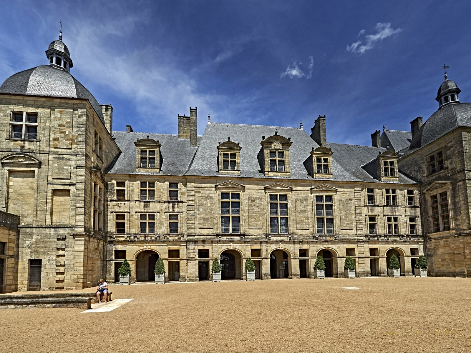 Courtyard facade of the Château de Hautefort